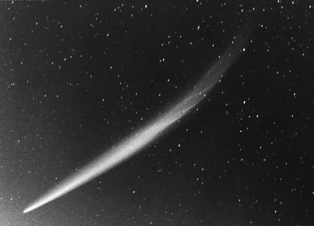 This picture was captured on October 30, 1965 showing the full extent of this great comet's tail of some 30 degrees.